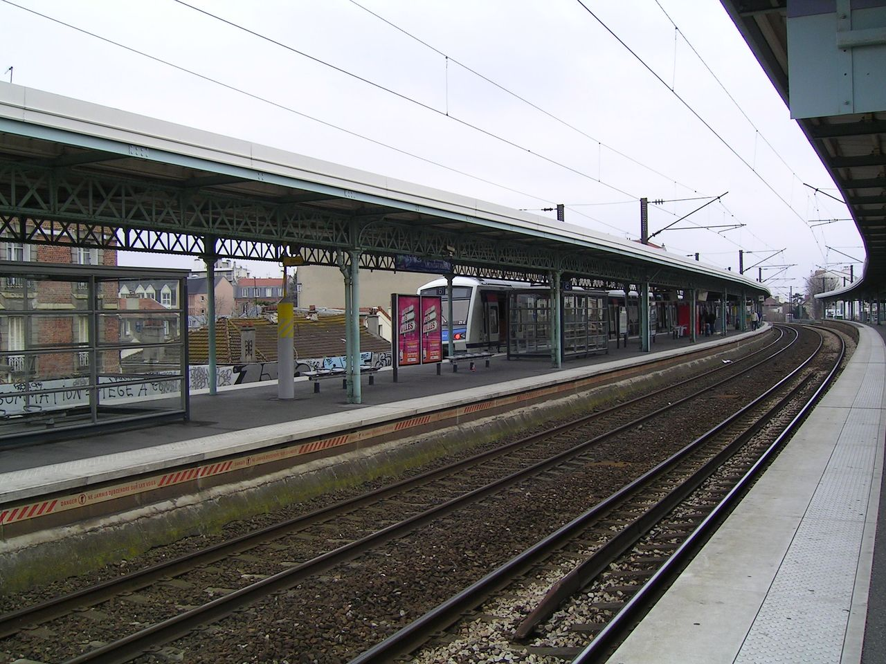 Gare du RER E Le Raincy-Montfermeil-villemomble Photo personnelle (own work) de Marianna